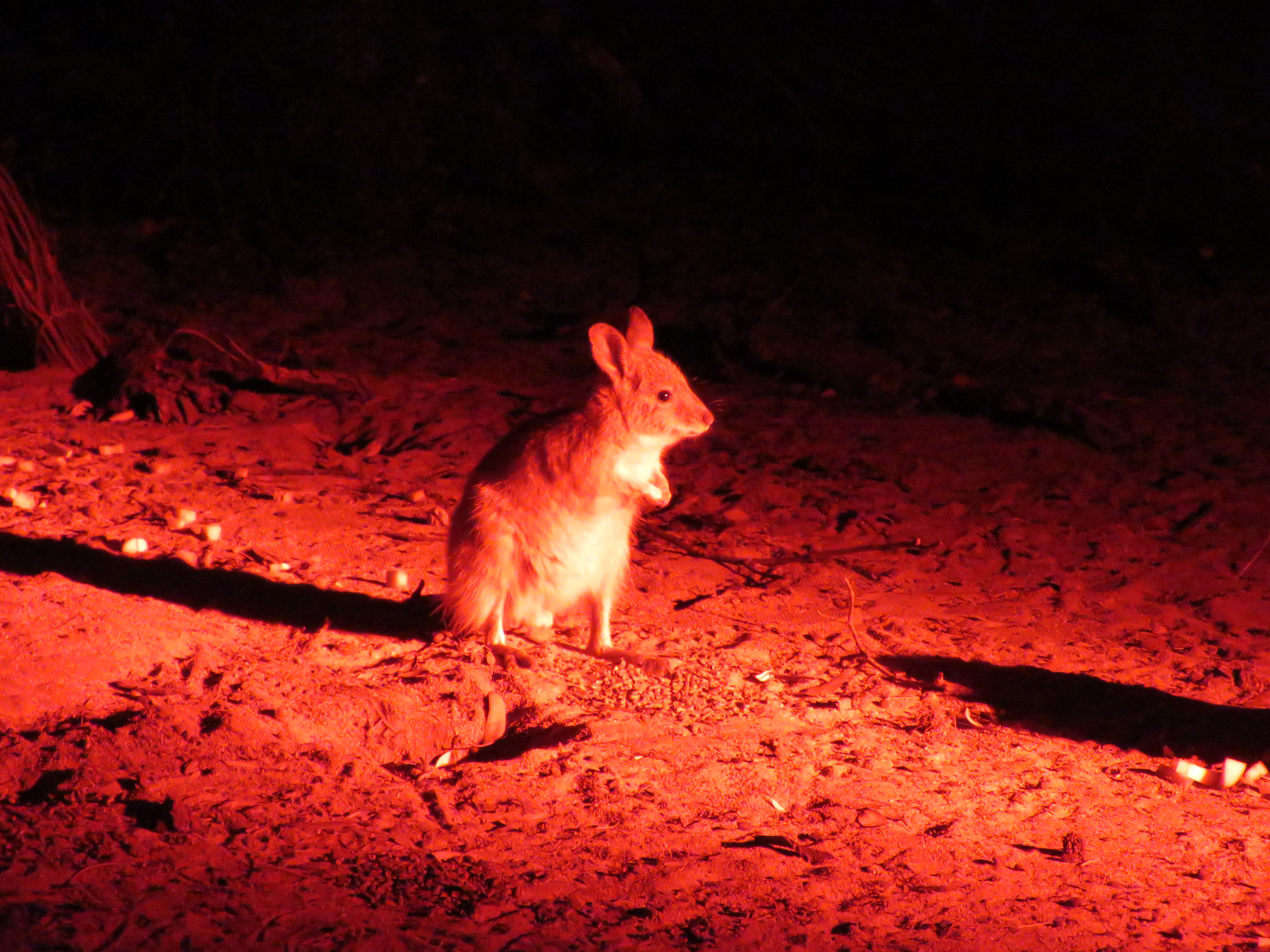 Lagorchestes hirsutus Gould, 1844, Mala (Rufous Hare-Wallaby), Barna Mia Sanctuary, Dryandra, WA, Australia, 12 January 2018